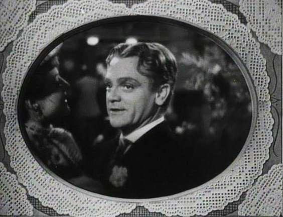 Frame from the public domain trailer for Warner Bros. 1941 film Strawberry Blonde showing James Cagney in a cameo frame